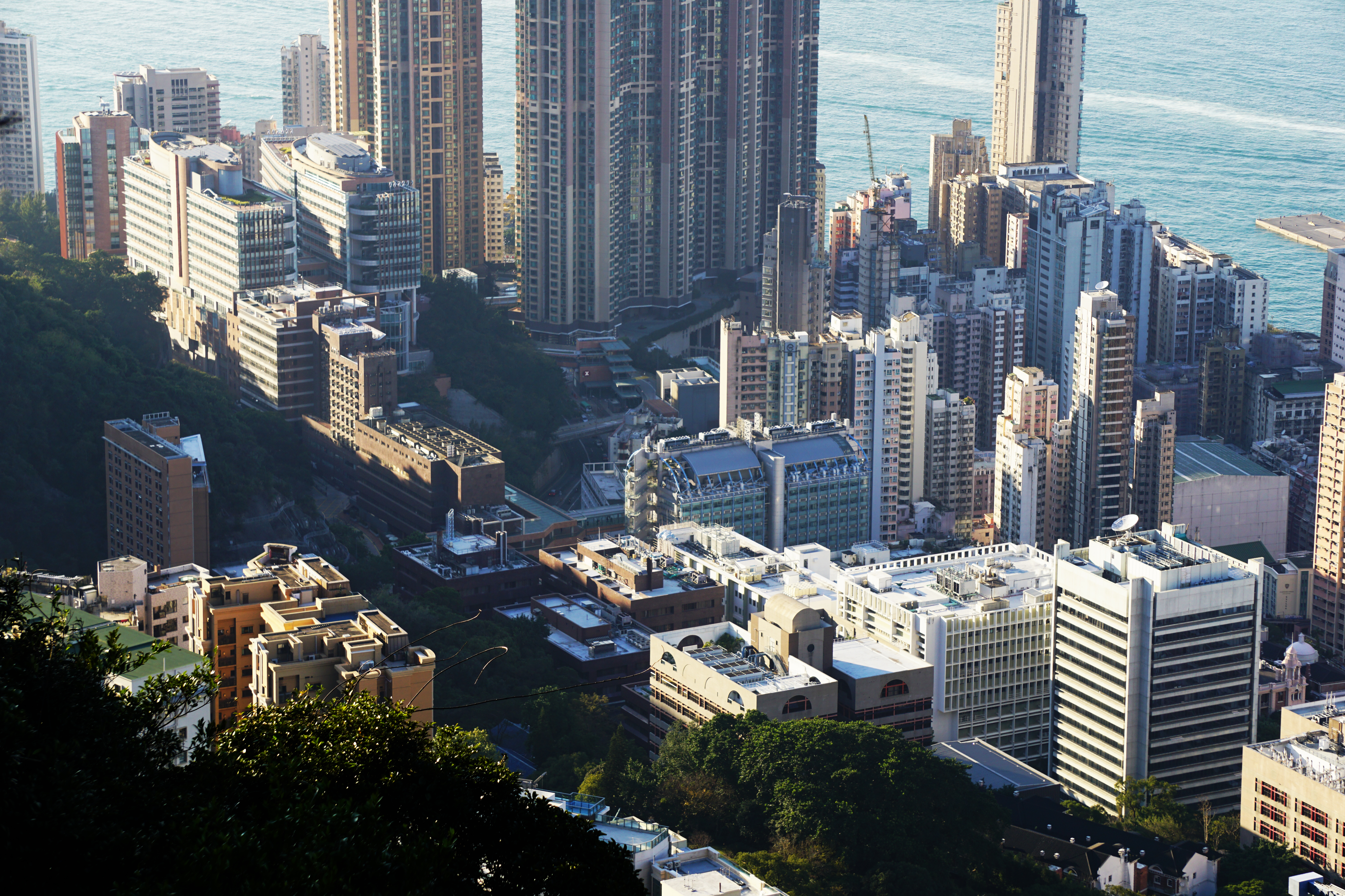 University in Shek Tong Tsui, Hong Kong.